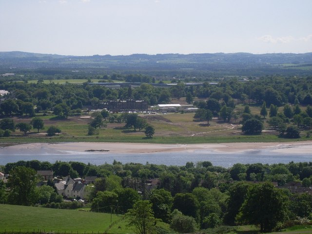 Old Kilpatrick (foreground) and Erskine Hospital (opposite bank of the Clyde) from Kilpatrick Hills